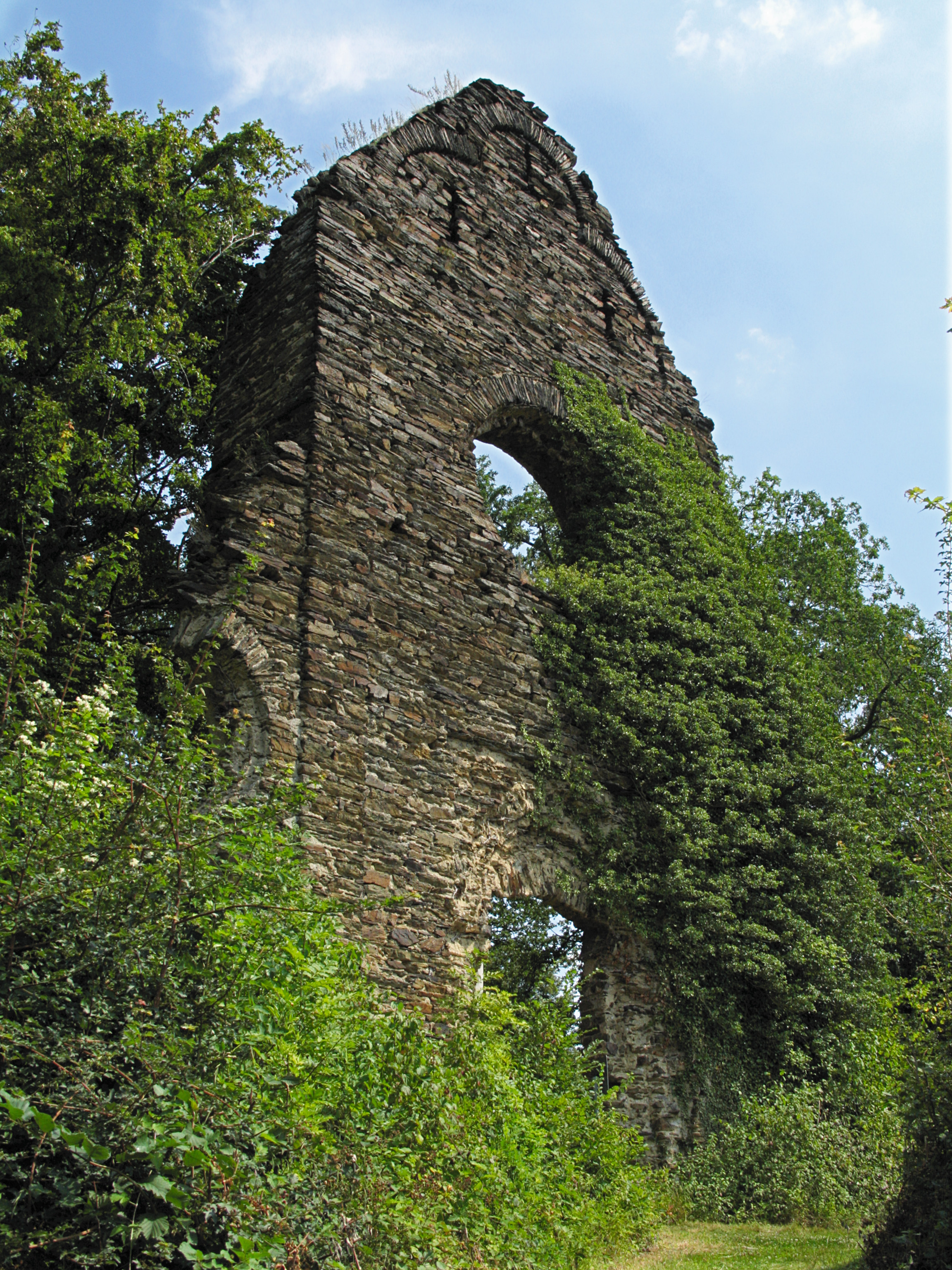 Ruins of the Brunnenburg monastery near Bremberg, Rhein-Lahn-Kreis, Germany. The picture shows the remains of the western wall of the monastery church.